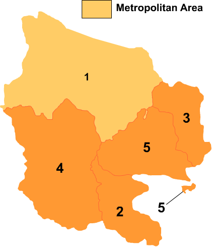 Map of Hainan in Qinghai province